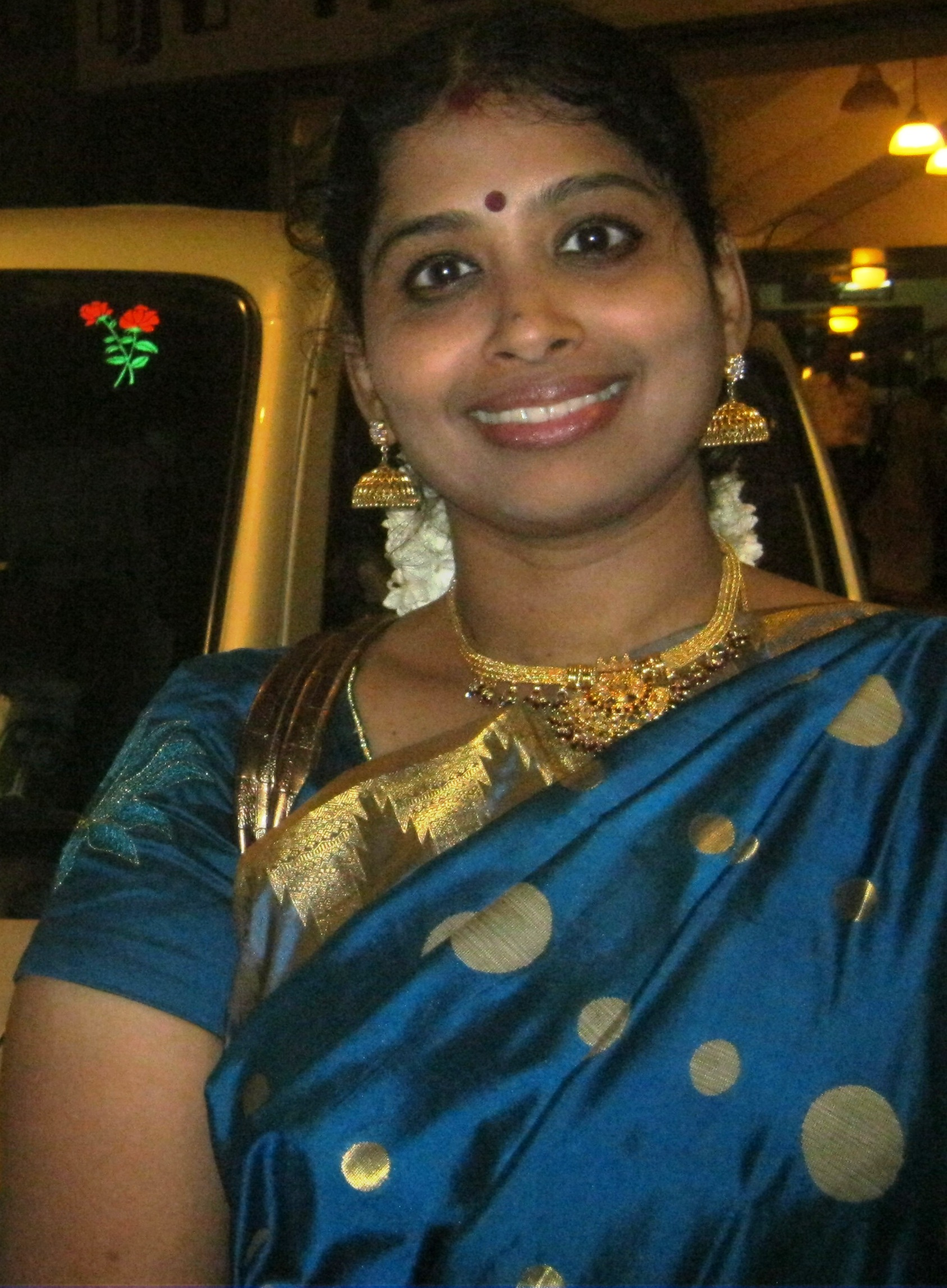 Nithyasree Mahadevan (2011)